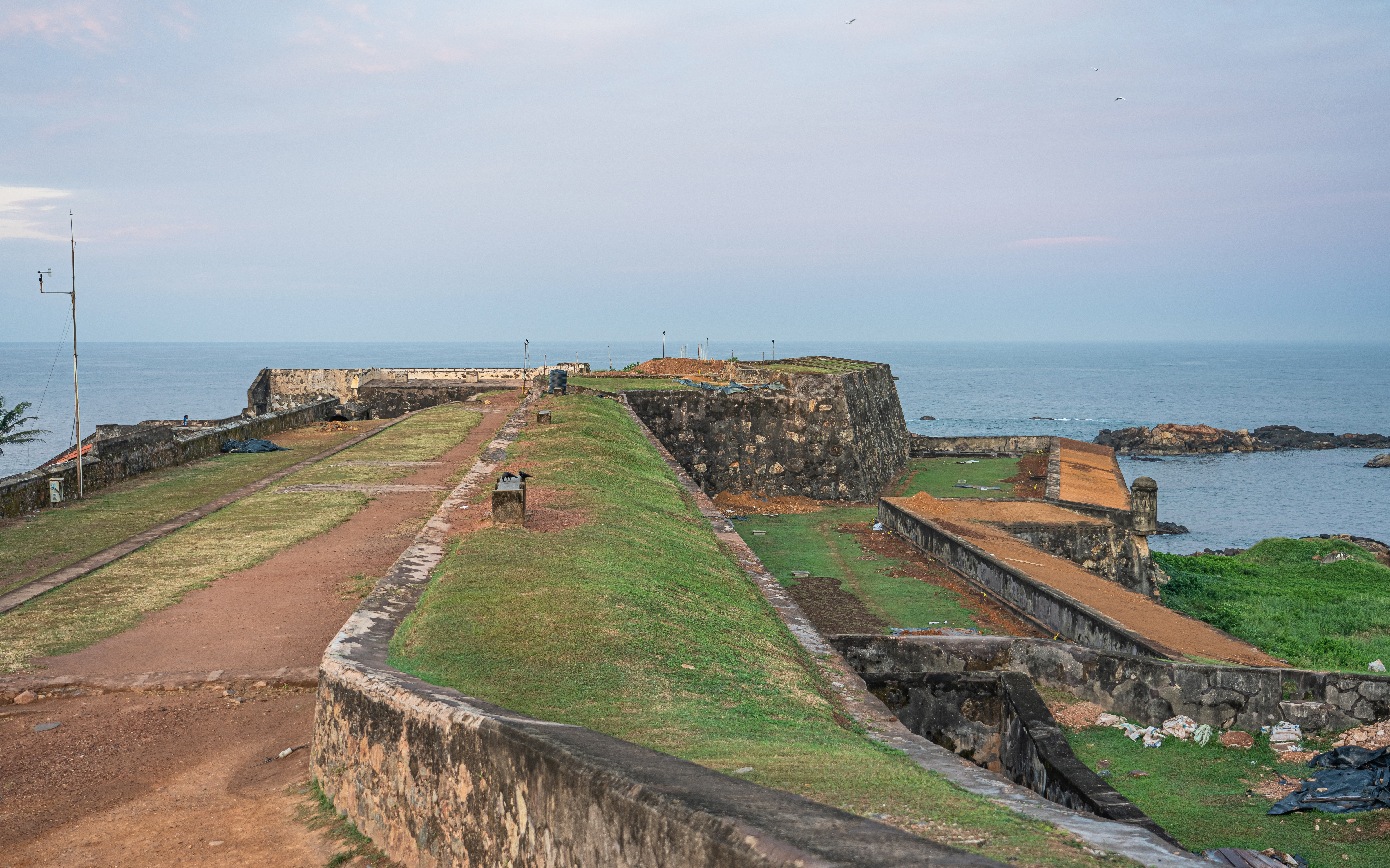 Star Bastion of the Dutch Fort of Galle, Sri Lanka